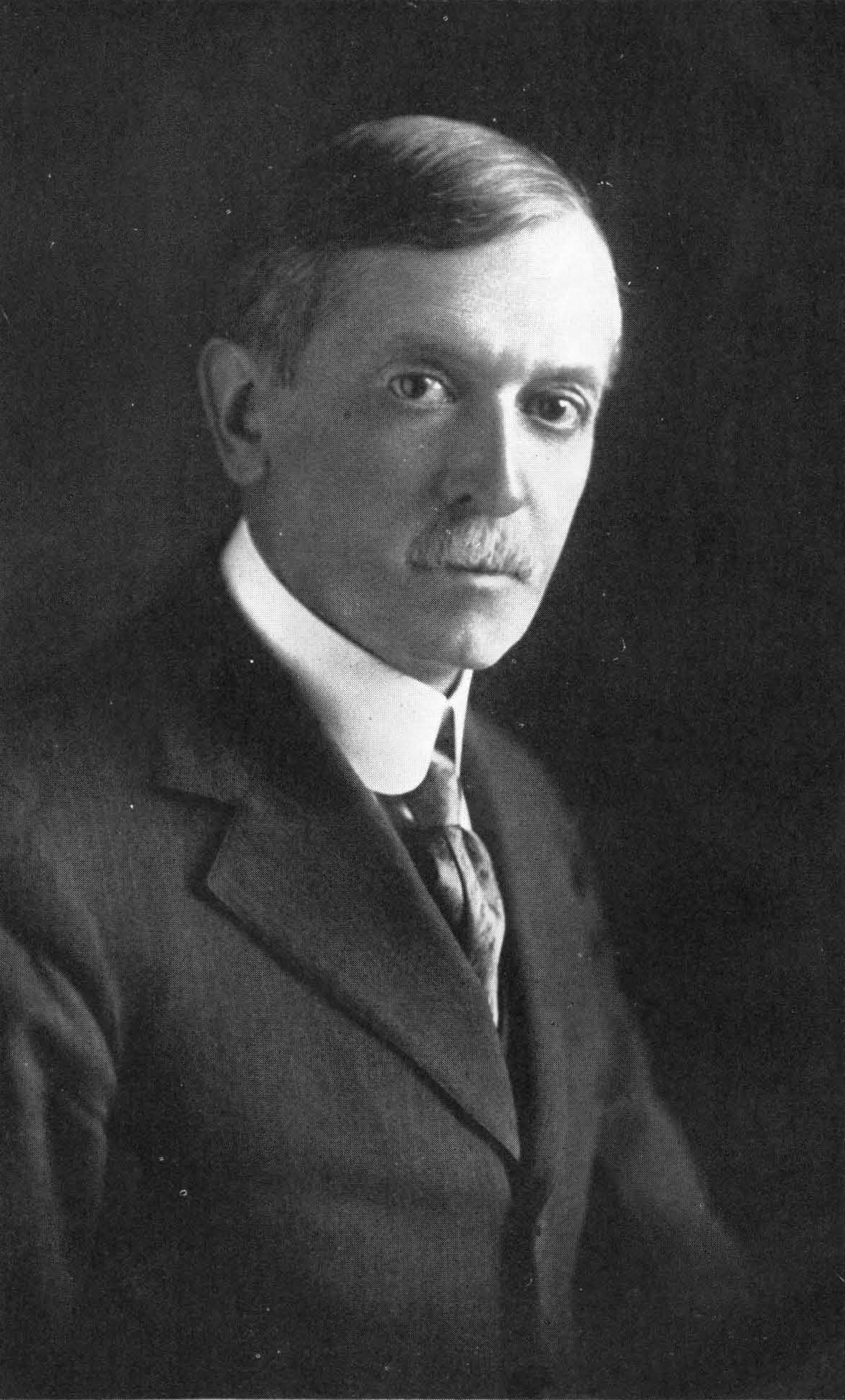 Arthur A. Noyes in 1923